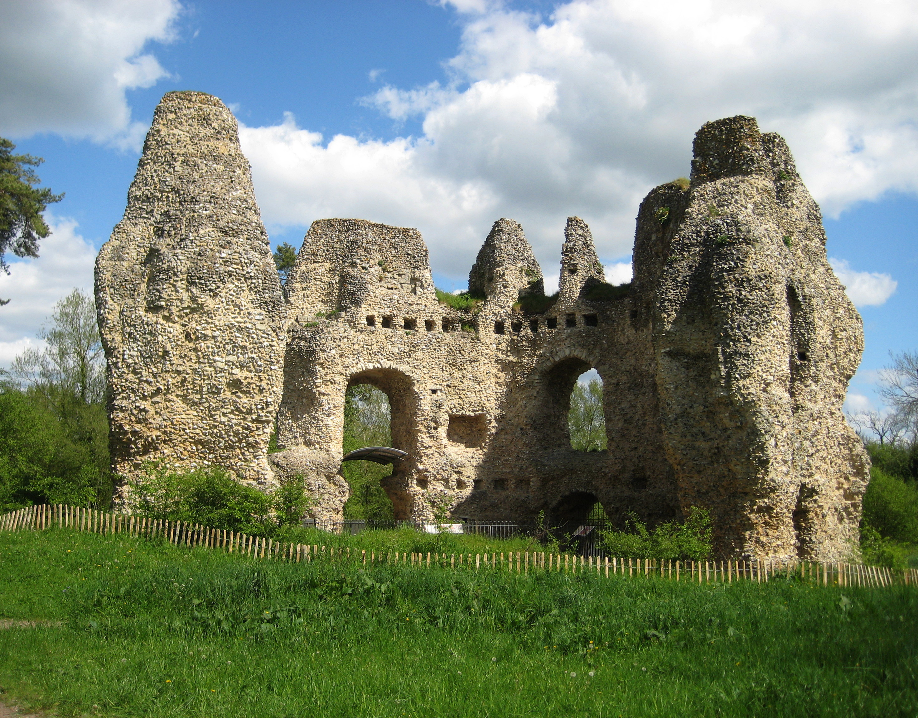 View of Odiham Castle (also known as King John's Castle), North Warnborough, Hampshire. This is an octagonal castle that was originally built for King John between 1207 and 1214. The castle was besieged for two weeks by the French in 1216, following which it was largely rebuilt. The castle was then the home of King John's youngest daughter, Eleanor, before she was exiled to France after her husband, Simon de Montfort, was killed in the Battle of Evesham. Edward I spent Christmas here in 1302; Edward III gave the castle to his queen, Philippa of Hainault, as a hunting lodge; and David II of Scotland was imprisoned here for three years in the 1350s. The castle was abandoned in the 14th century.